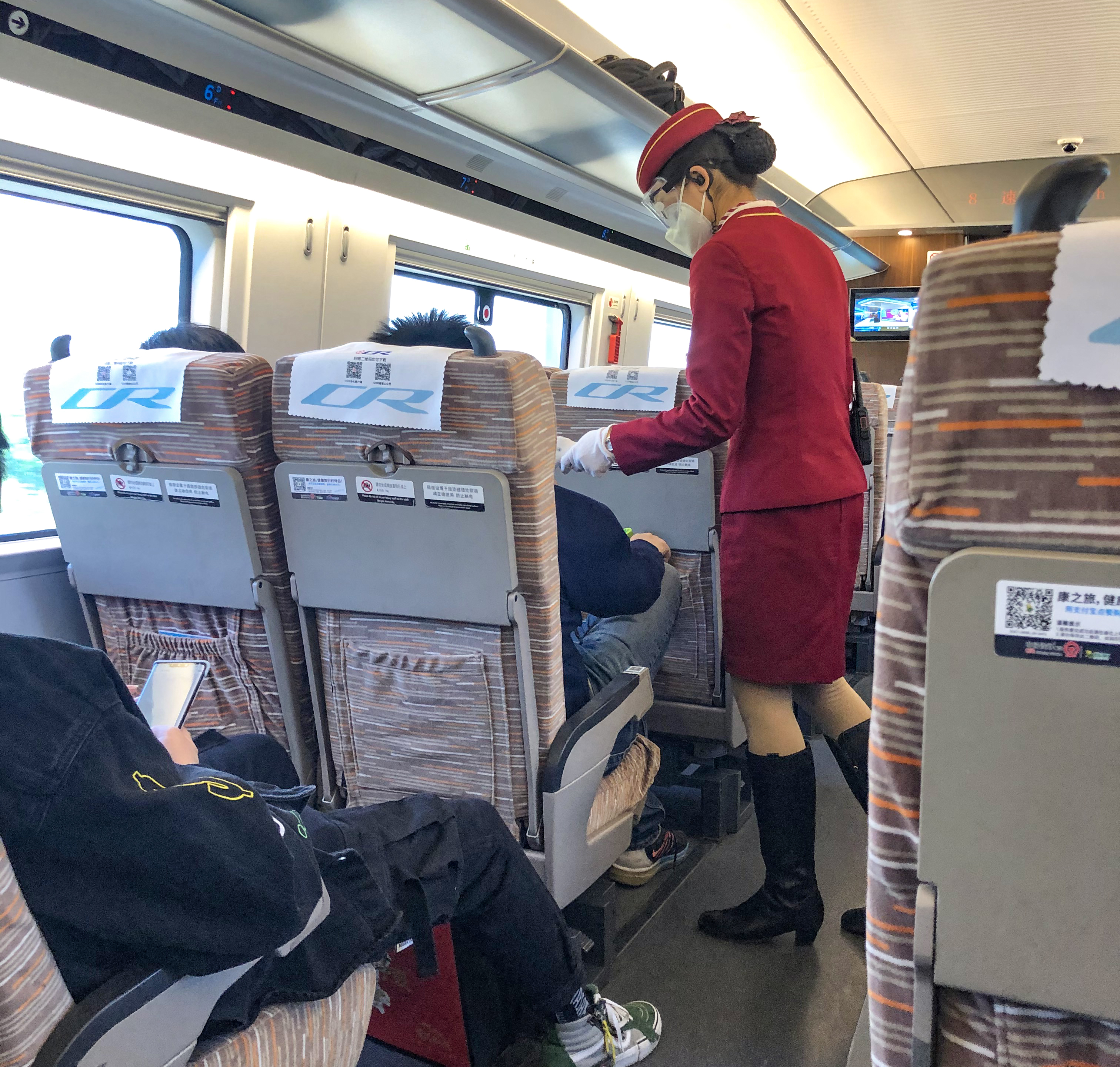 On board C2025 from Beijing South to Tianjin. Passengers are required to have their temperatures checked during the trip even if the epidemic in Beijing-Tianjin-Hebei region has been eased.